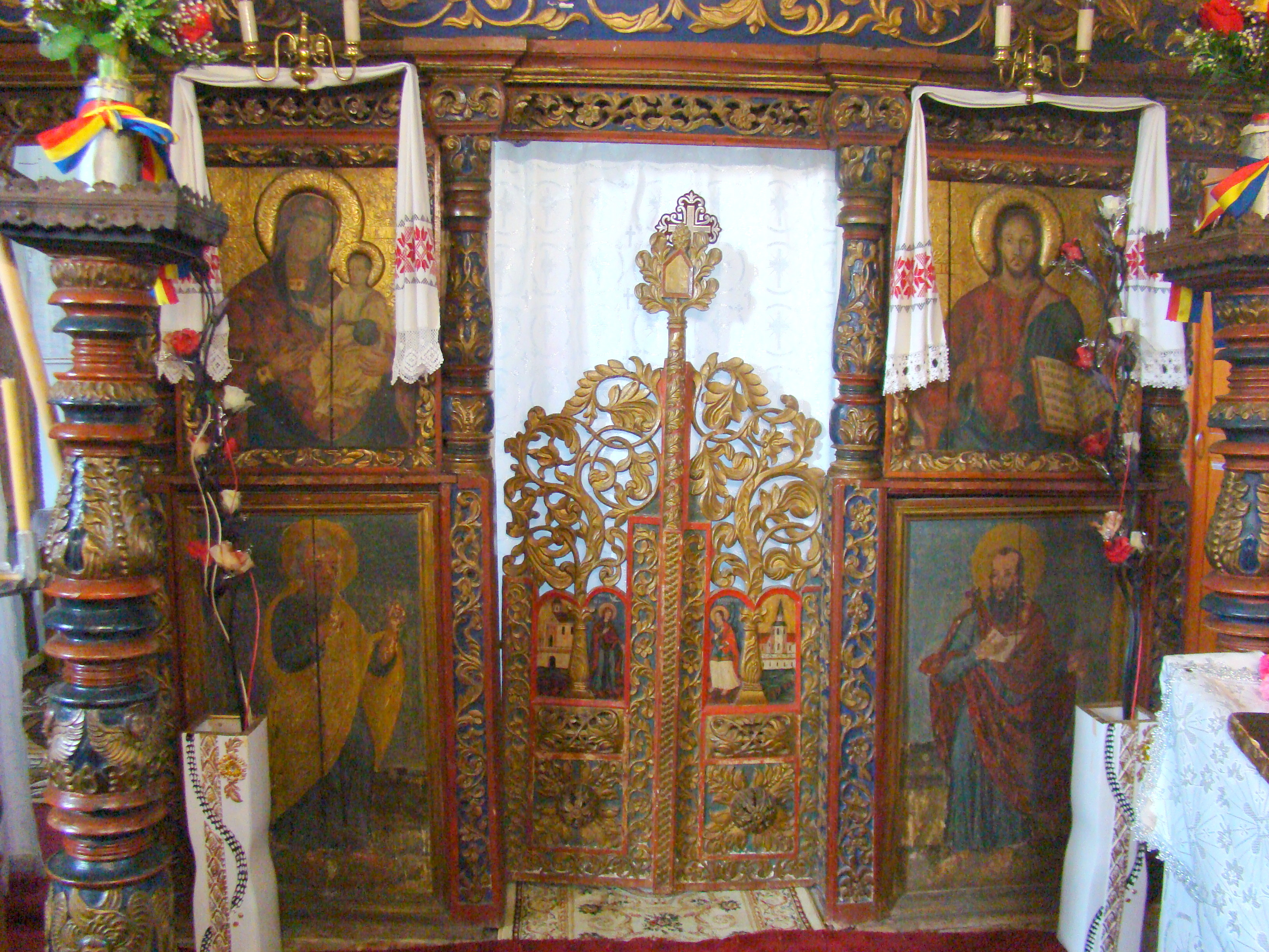 Church of the Annunciation in Trestia, Hunedoara county, Romania